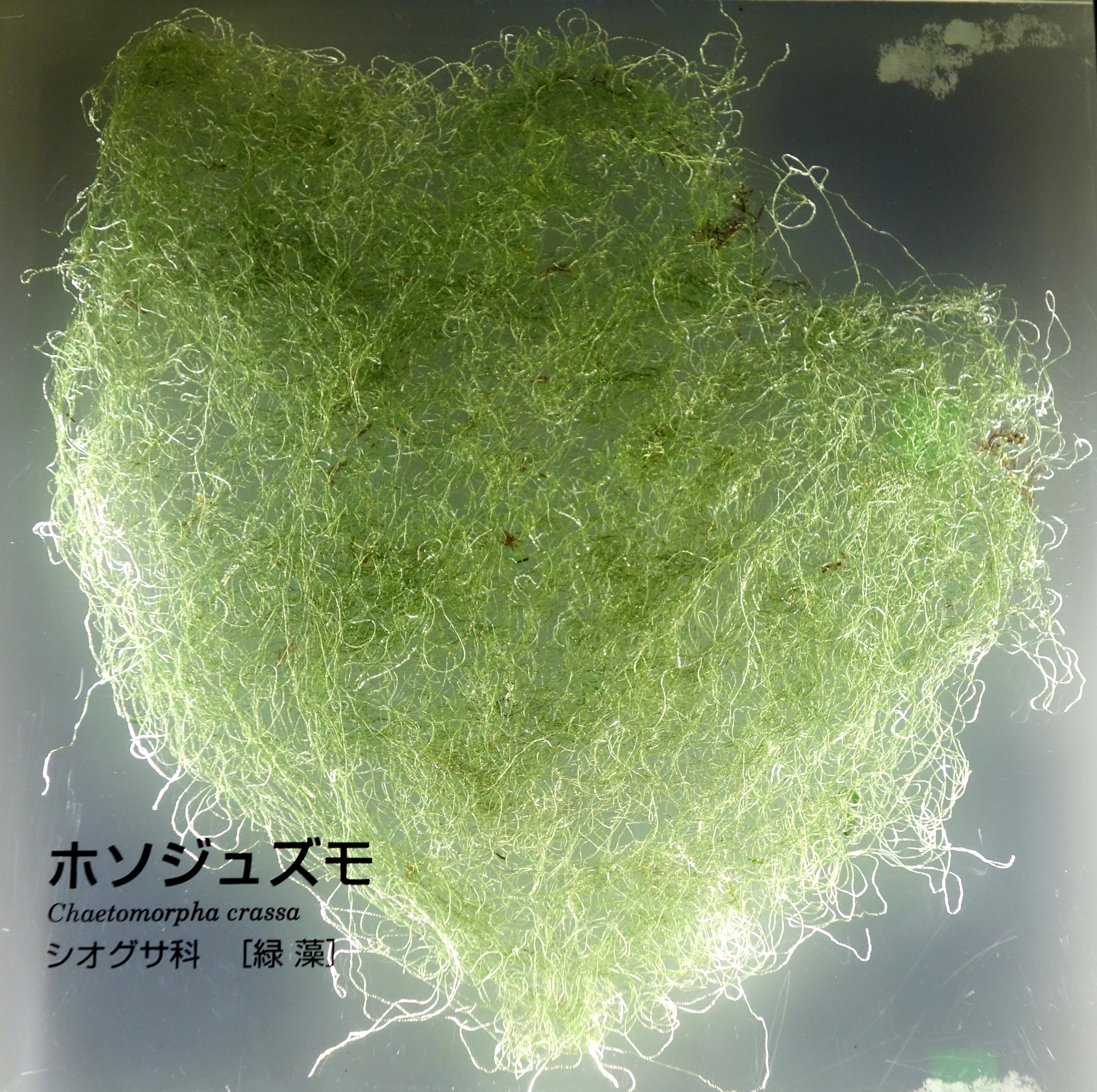 Exhibit in the National Museum of Nature and Science, Tokyo, Japan.